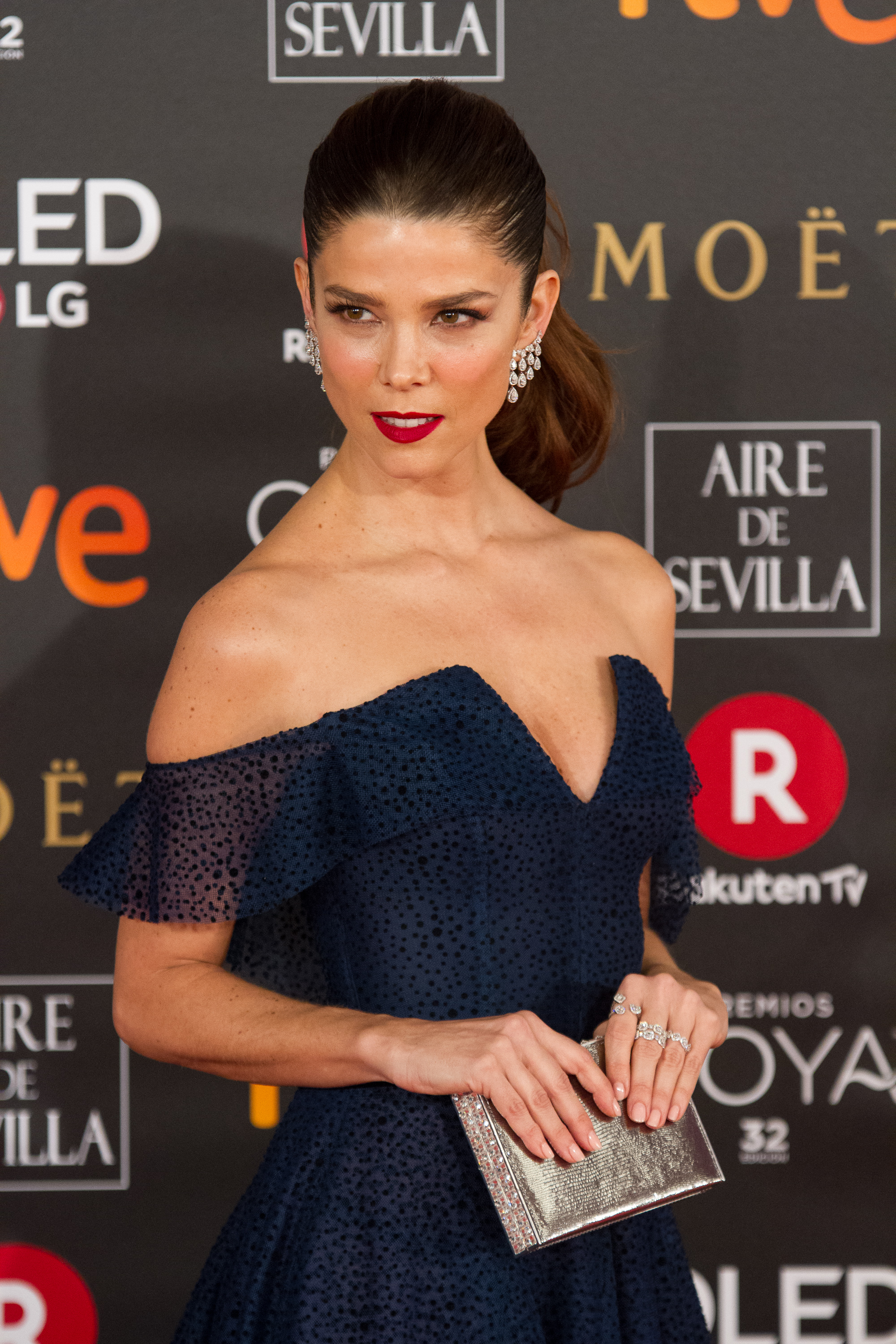 32nd Goya Awards, 2018.